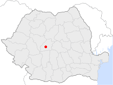 Location of Sibiu in Romania.